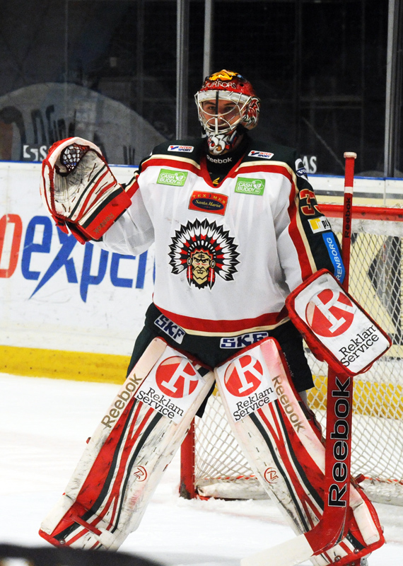 Slovak ice hockey goalie Julius Hudacek in Frolunda Indians jersey.